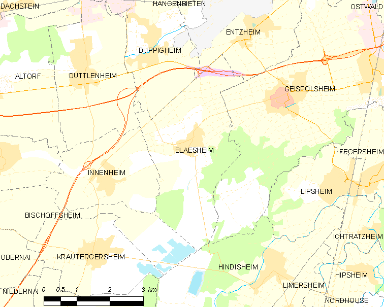 Map of French municipality